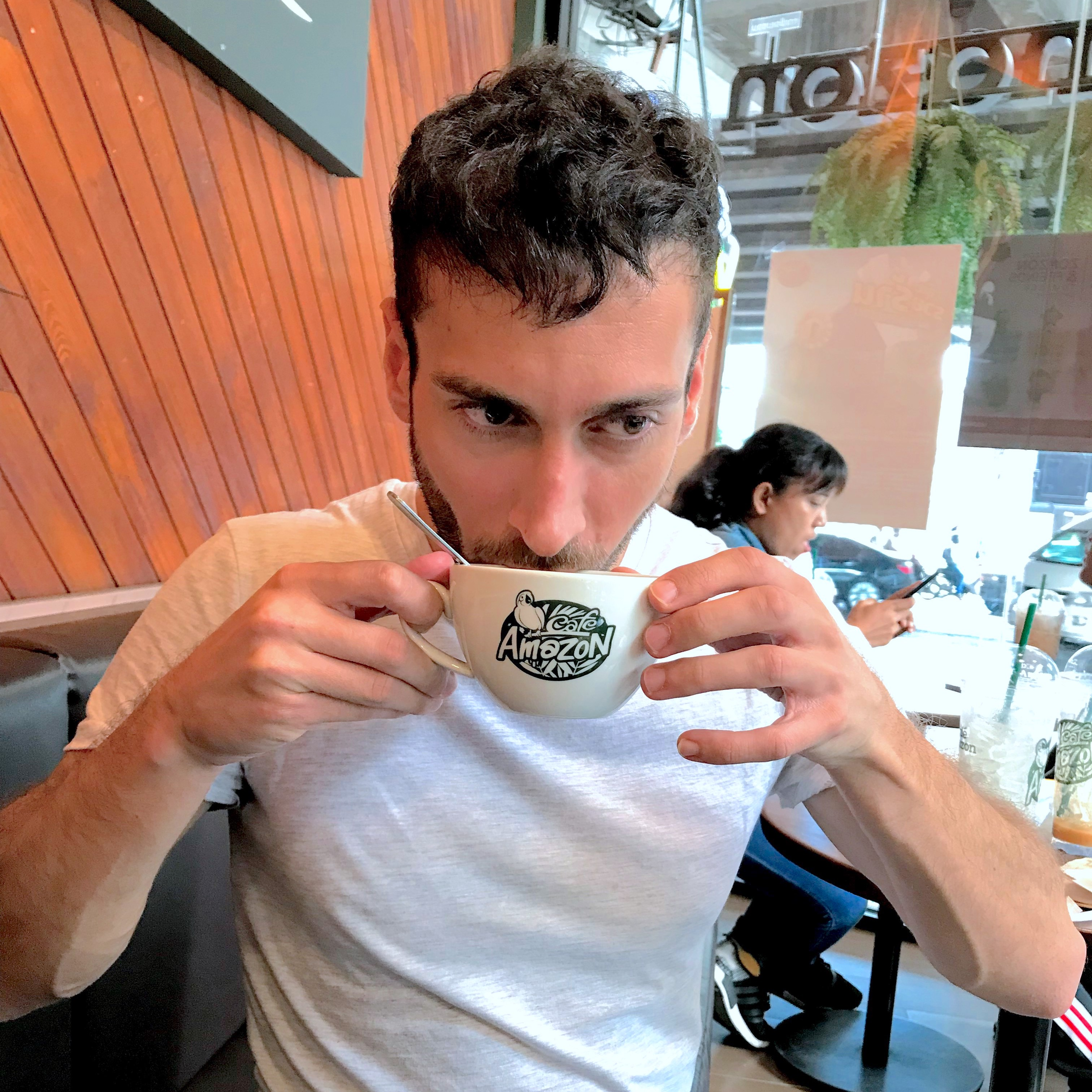 A man drinking coffee in Café Amazon